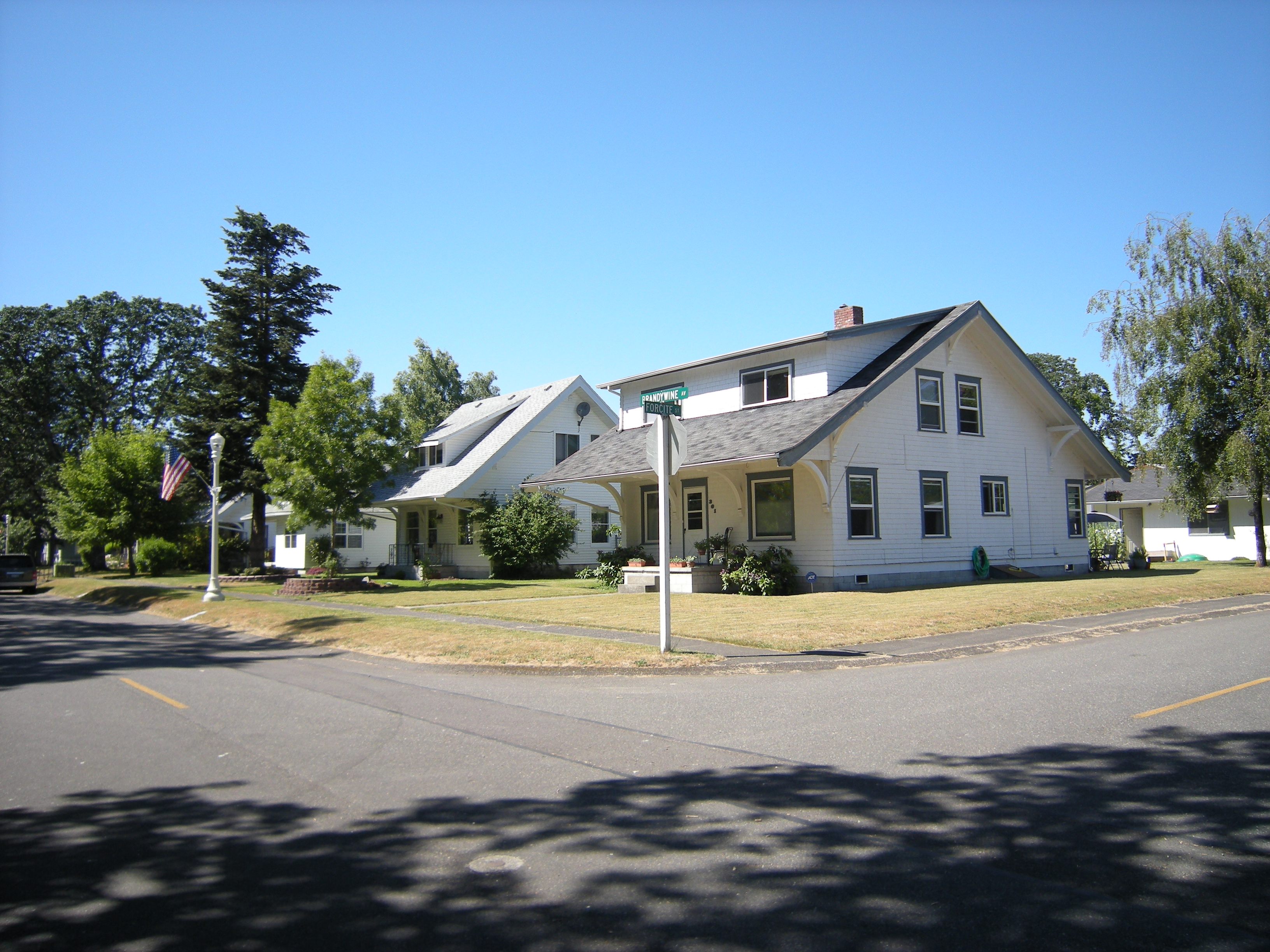 Brandywine Avenue, corner of Forcite, Dupont, Washington.